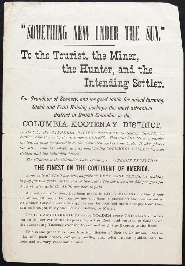 Handbill (reverse) promoting steamboat Duchess, operating out of Golden, BC, and newly built in 1888.